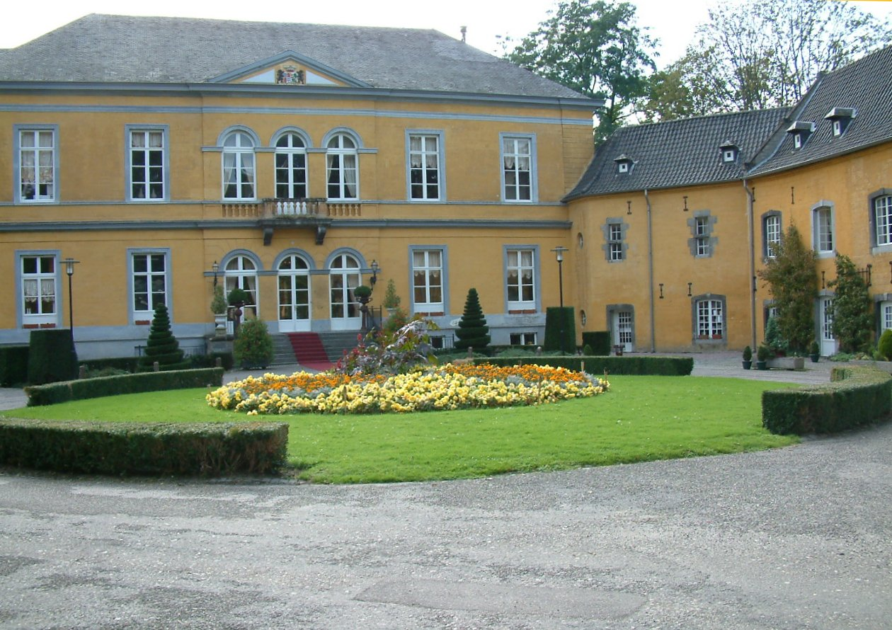 Oost Castle in Valkenburg, the Netherlands. Frontside of the castle with the right wing.